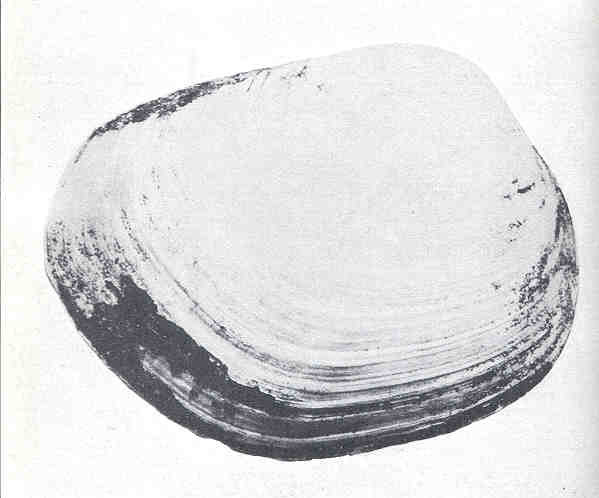 Shell of Schizothaerus nuttalli, the 'Great Blue Clam' Subject: Clams Tag: Shellfish